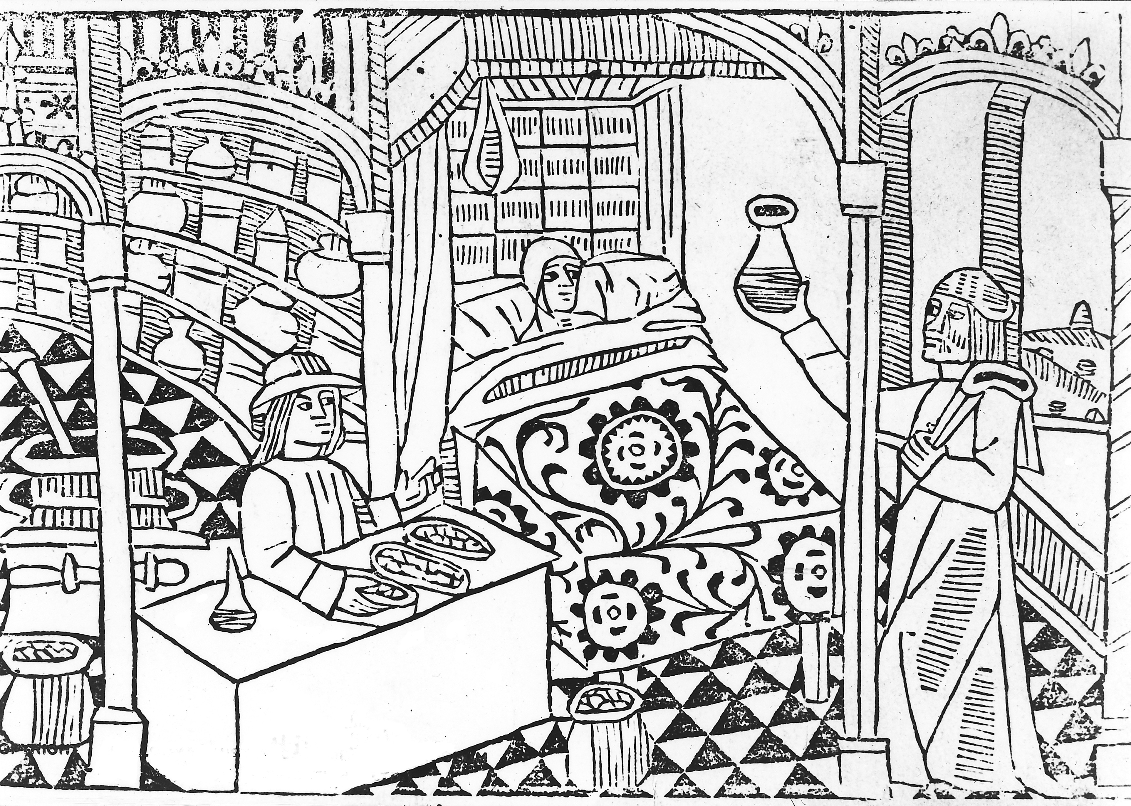 Left: apothecary in shop; centre: patient in bed; right: physician examing urine. Wellcome Images Keywords: Patients; Bartholomaeus Anglicus